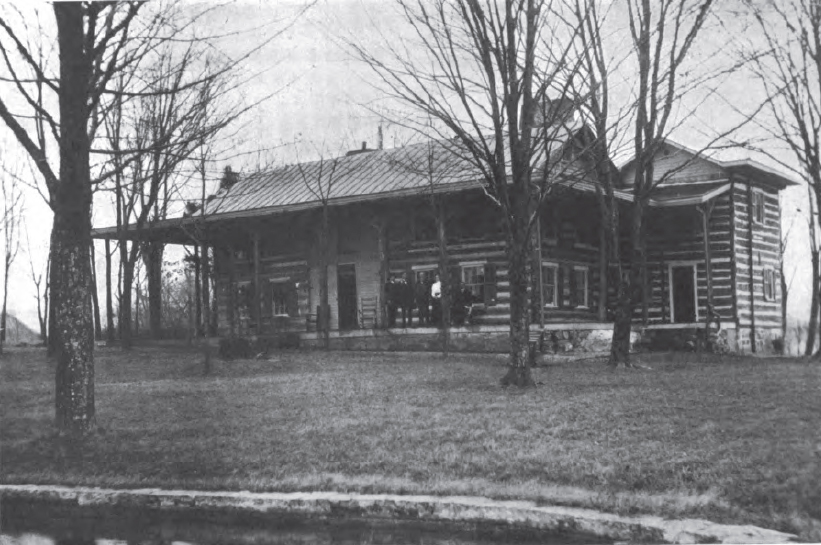 Glen Lily, the residence of Confederate general and Kentucky Governor Simon Bolivar Buckner